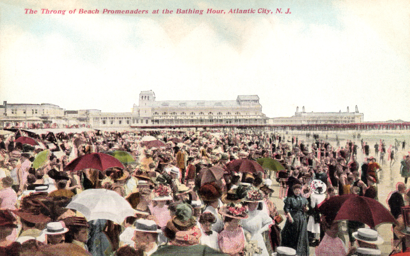 Semi-gloss postcard entitled "The Throng of Beach Promenaders at the Bathing Hour, Atlantic City, N.J." Back is divided and reads "Made by Chilton Company, Phila., Pa., U.S.A. 53"